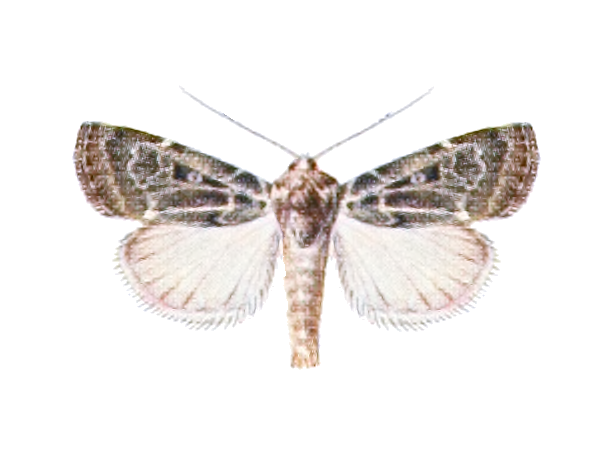 [Agrotis] cœlebs [sic] Staud. = Xestia caelebs (Staudinger, 1895), ♂, Asia Minor.